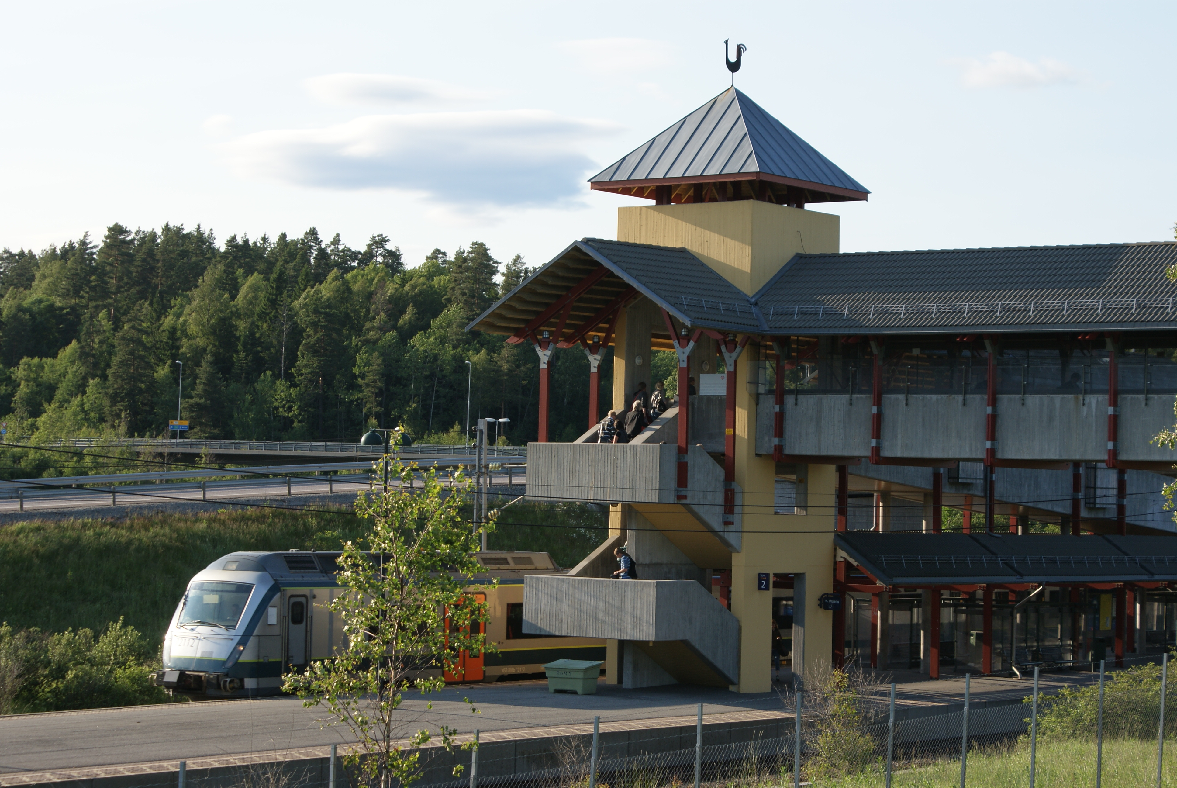 Sonsveien Station, Vestby, Norway NSB Class 72 train